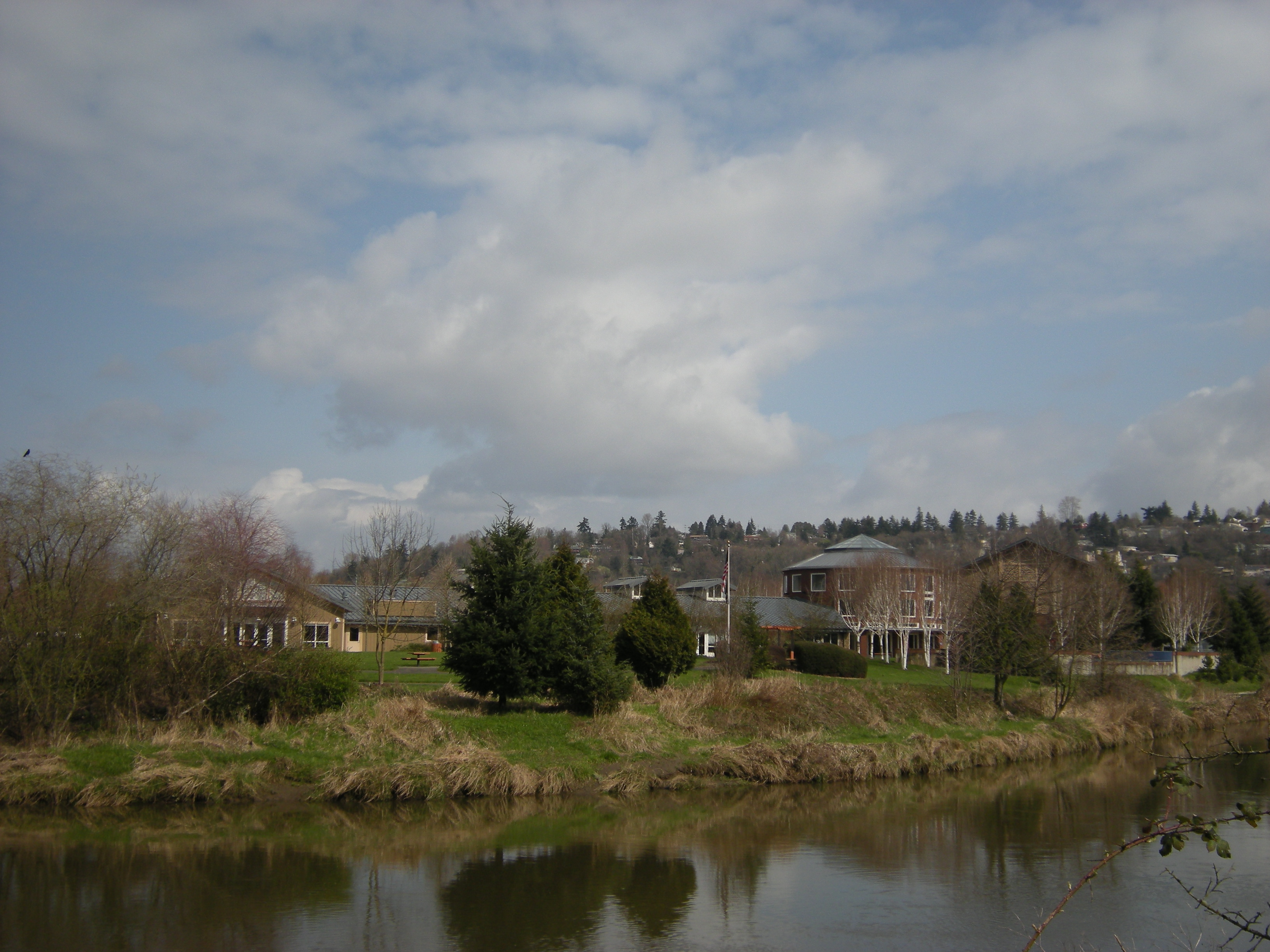 City of Tukwila Community Center, Tukwila, Washington, seen from the Green River Trail across the upper portion of the Duwamish River.